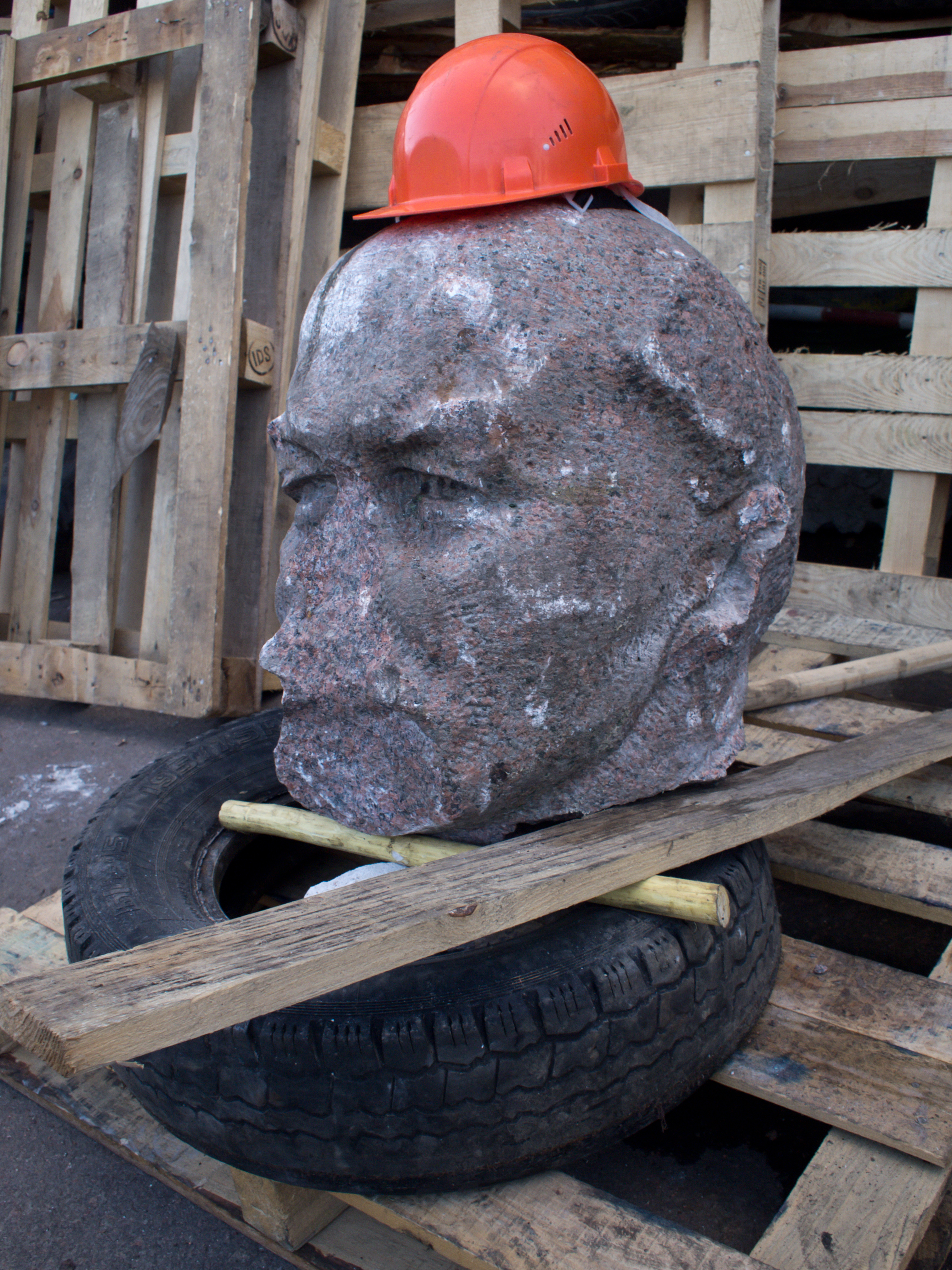 Euromaidan in Zhytomyr, 21 February 2014. Destructed statue of Lenin in Zhytomyr.